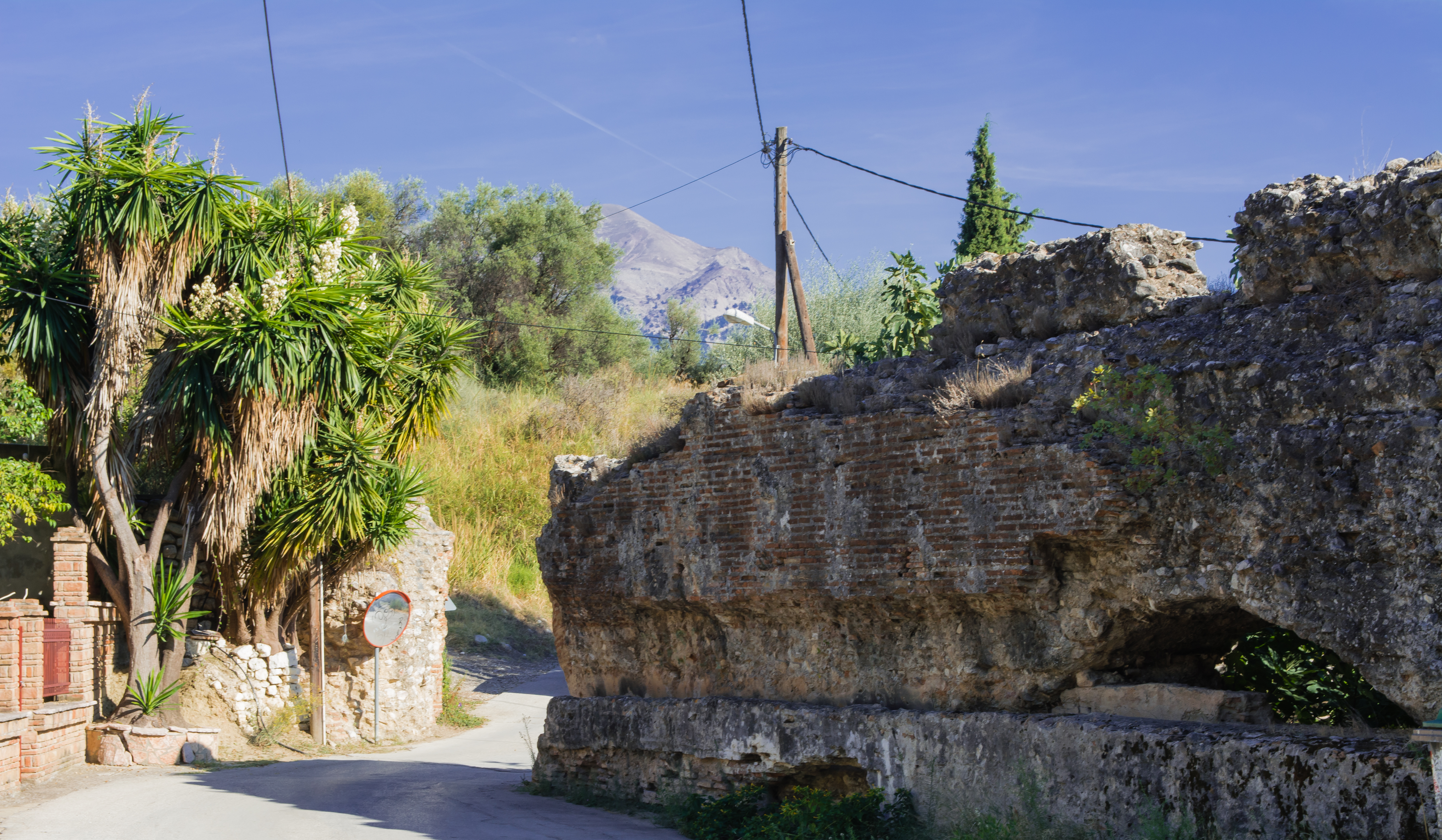 Partial view of Roman Aqueduct of Patras (Artemidos Str. and Folois Str. corner, Asyrmatos neighbourhood of Patras, Achaia, Greece).«Ρωμαϊκό και Μεσαιωνικό Υδραγωγείο Πάτρας»